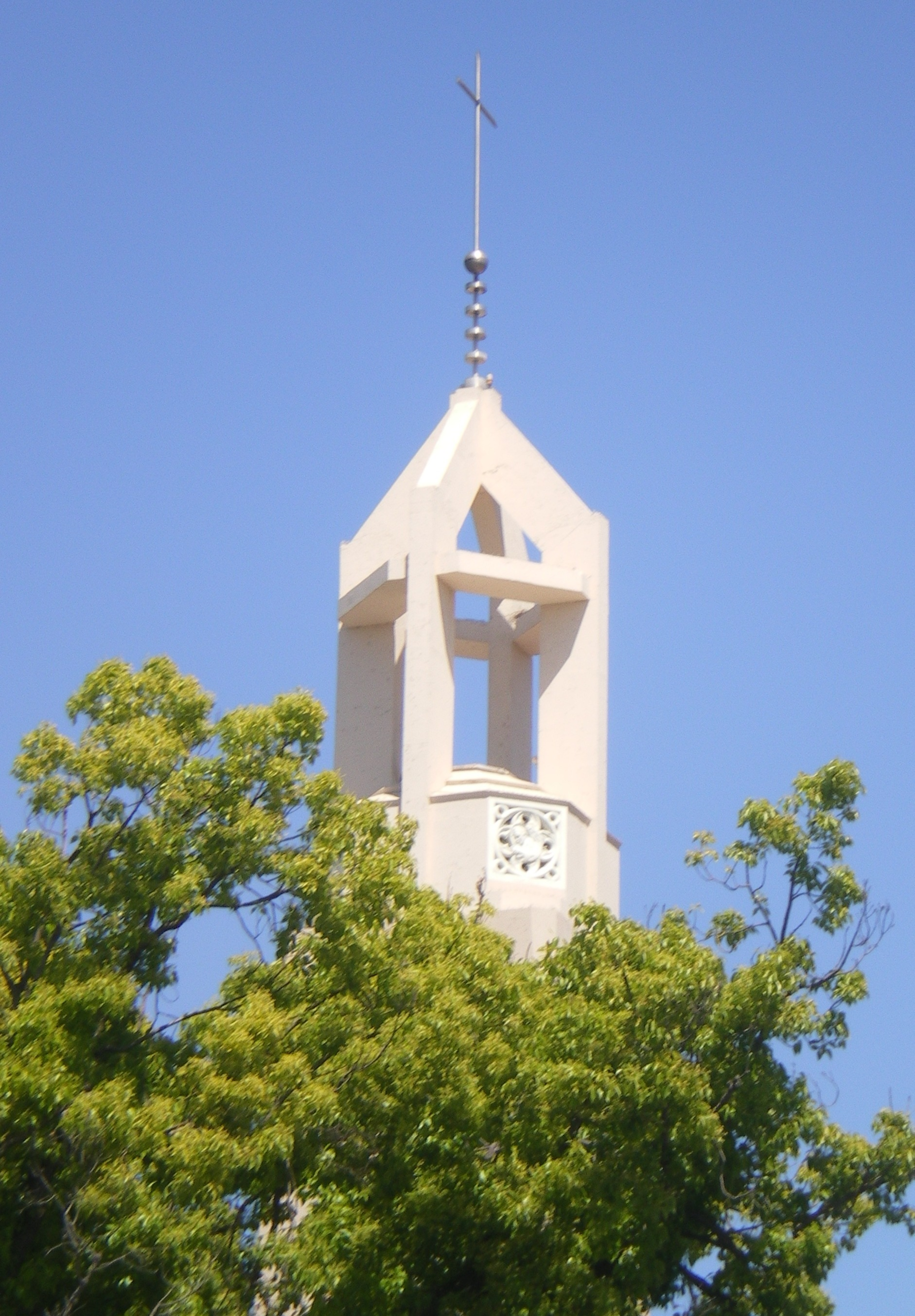 Steeple of St. Finbar Catholic Church, Burbank, California St. Finbar Catholic Church, Burbank, California